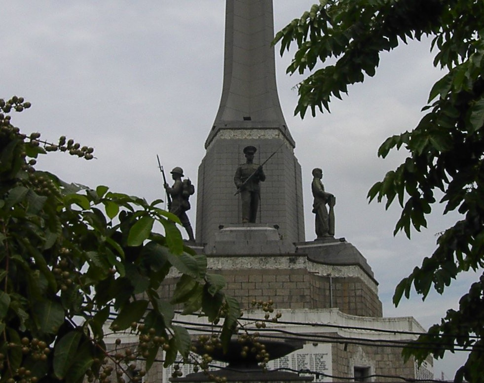 Victory Monument, Bangkok